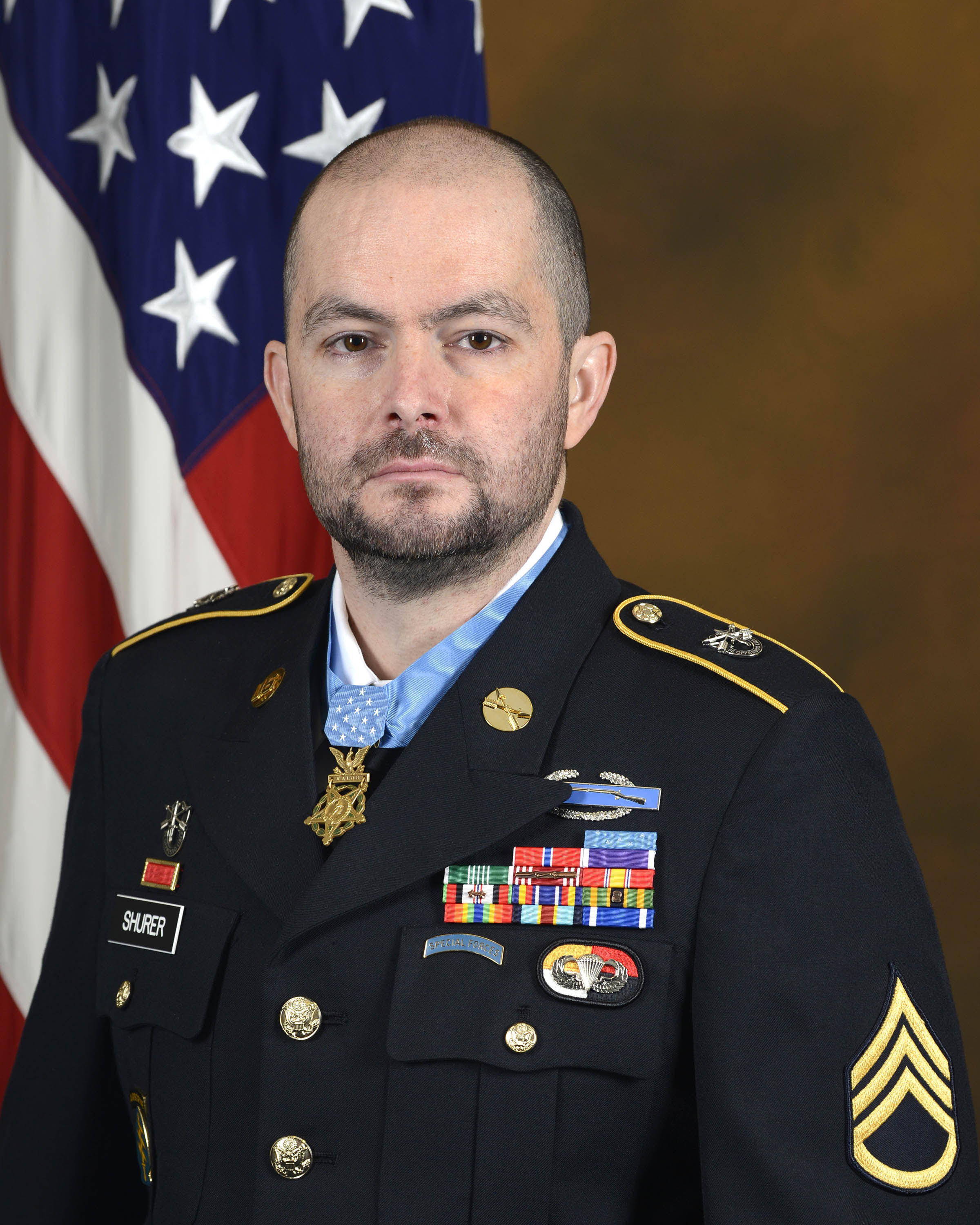 U.S. Army Staff Sergeant Ronald J. Shurer, II., Medal of Honor recipient, poses for a portrait in the Army portrait studio at the Pentagon in Arlington, Va., Oct. 2, 2018. Shurer was awarded the Medal of Honor for actions while serving as a senior medical sergeant with the Special Forces Operational Detachment A3336, Special Forces Task-Force-33, in support of Operation Enduring Freedom in Afghanistan on April 6, 2008. (U.S. Army photo by Monica King)